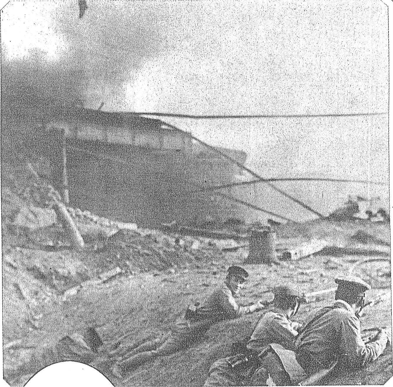 Japanese soldiers on the spot right after the explosion of Chang Tso-lin's train (June 4, 1928)